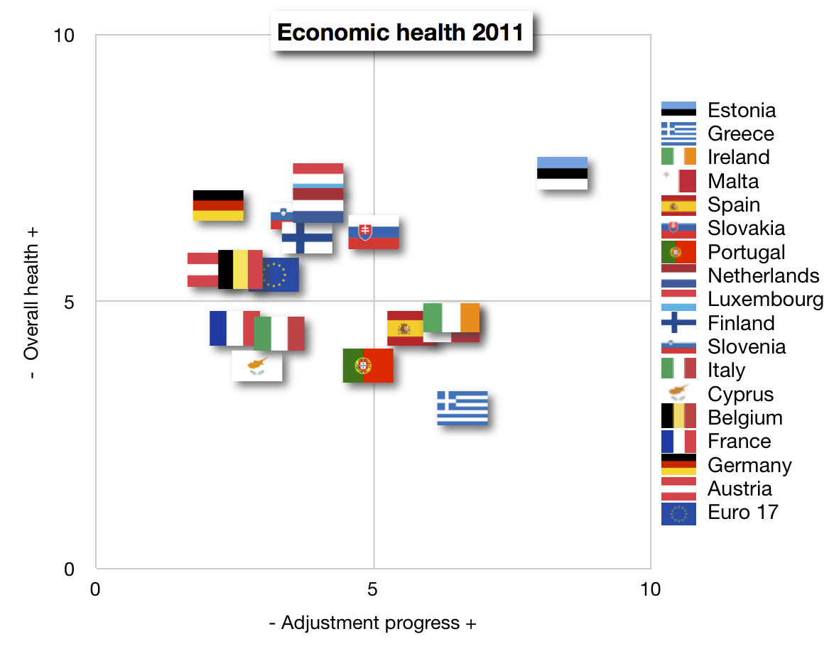 Overall economic health and adjustment progress of Eurozone countries 2011 according to "Euro Plus Monitor 2011". Indicators are measured from 0 (bad) to 10 (excellent) performance.